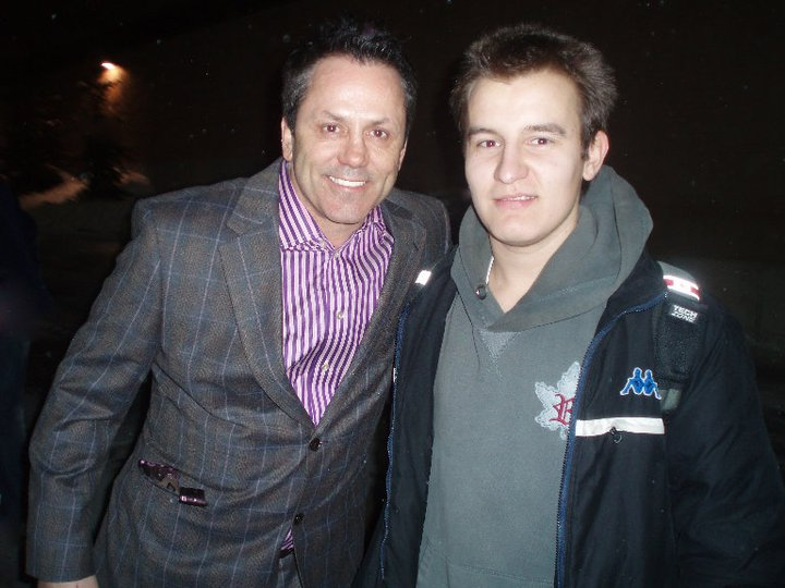 Doug Gilmour (as coach of the Kingston Frontenacs) upon being interviewed by journalist Djuradj Vujcic in Oshawa, Ontario.